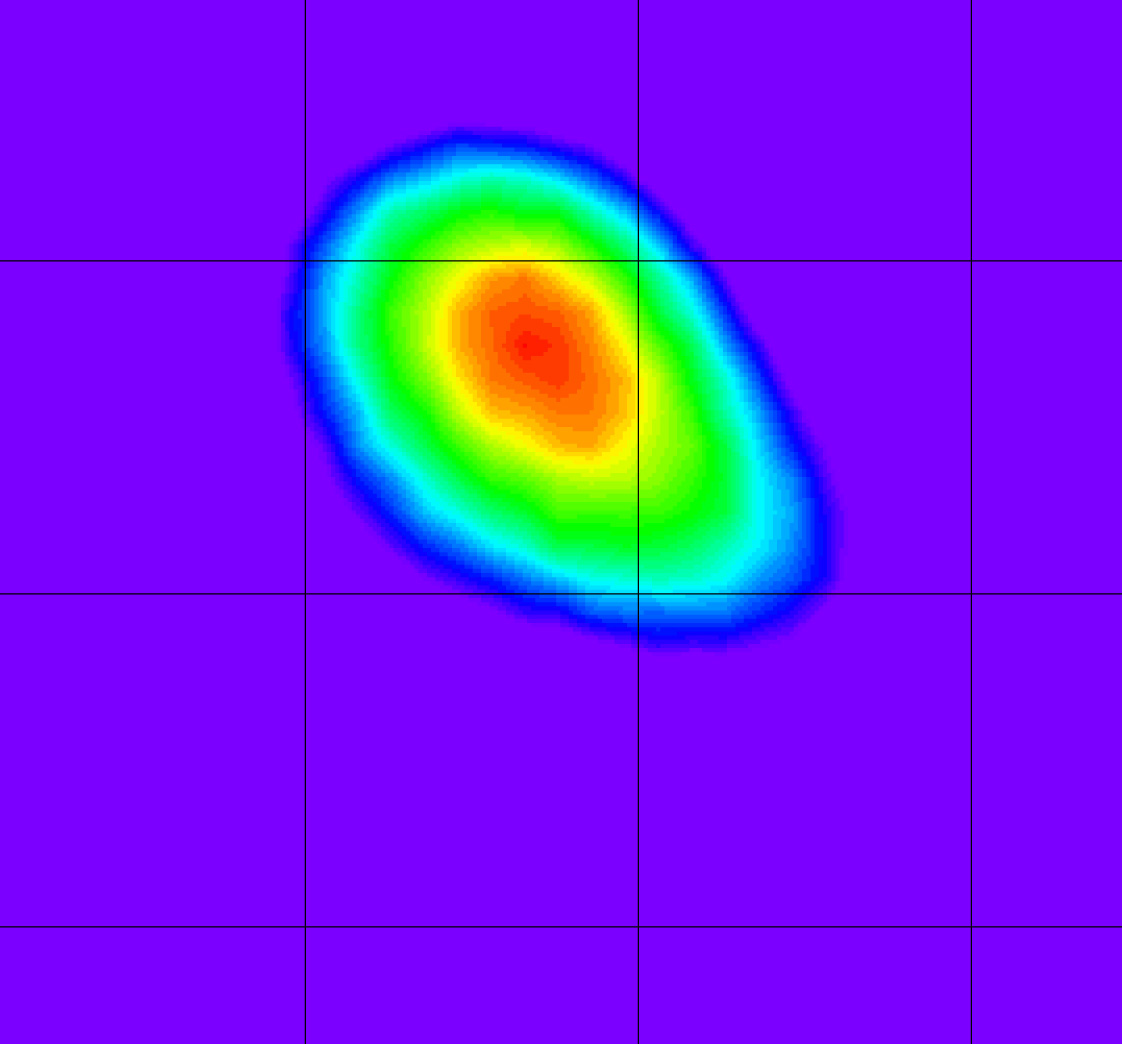 The sun as seen in gamma rays by COMPTEL during a June 15, 1991, solar flare. The sun is ordinarily not known to produce gamma rays, but during this solar flare, steams of neutrons poured into the intrastellar medium to create gamma rays. This image provided the first evidence that the sun can accelerate particles for several hours. This phenomenon was not observed before CGRO and represents a new understanding of solar flares.